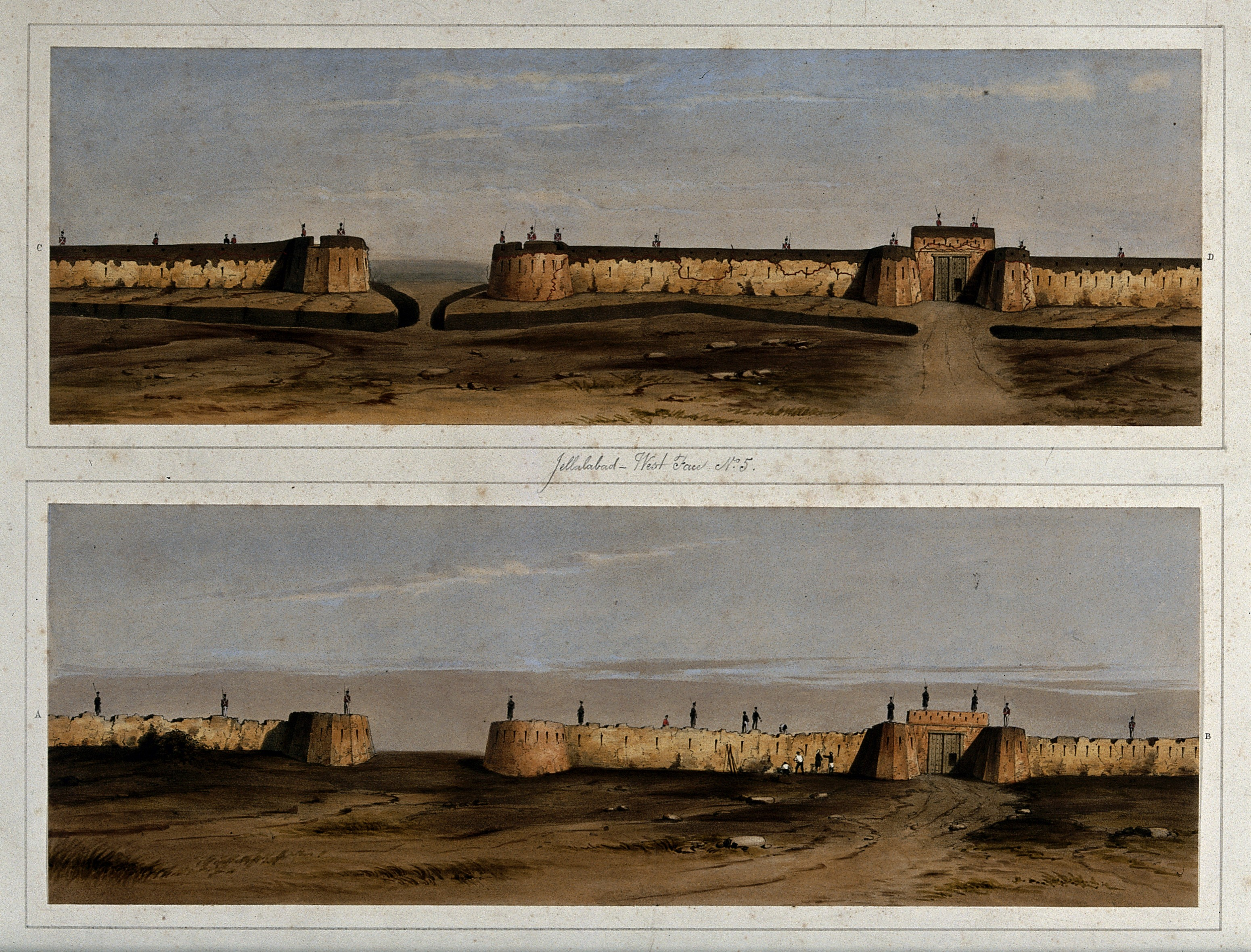 Topic-LCSH: Earthquakes. Genre/Technique: Lithographs.